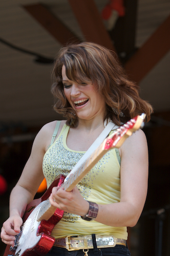 Erja Lyytinen at Otava Happy Jazz 2007.